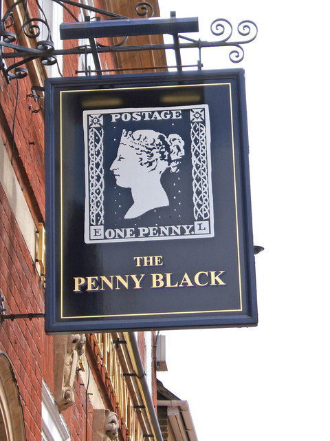 Sign of the Penny Black pub, 58 Sheep Street, Bicester, Oxfordshire